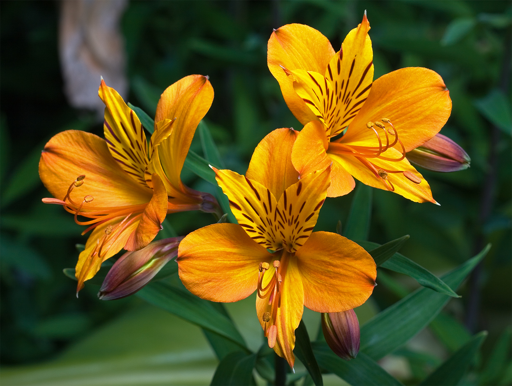 Alstroemeria aurea in southern Tasmania, Australia Camera data Camera Canon EOS 400D Lens Canon EF 70-200mm f4L w/ 12mm extension tube Flash Shoot through umbrella above right Focal length 91 mm Aperture f/11 Exposure time 1/200 s Sensivity ISO 100